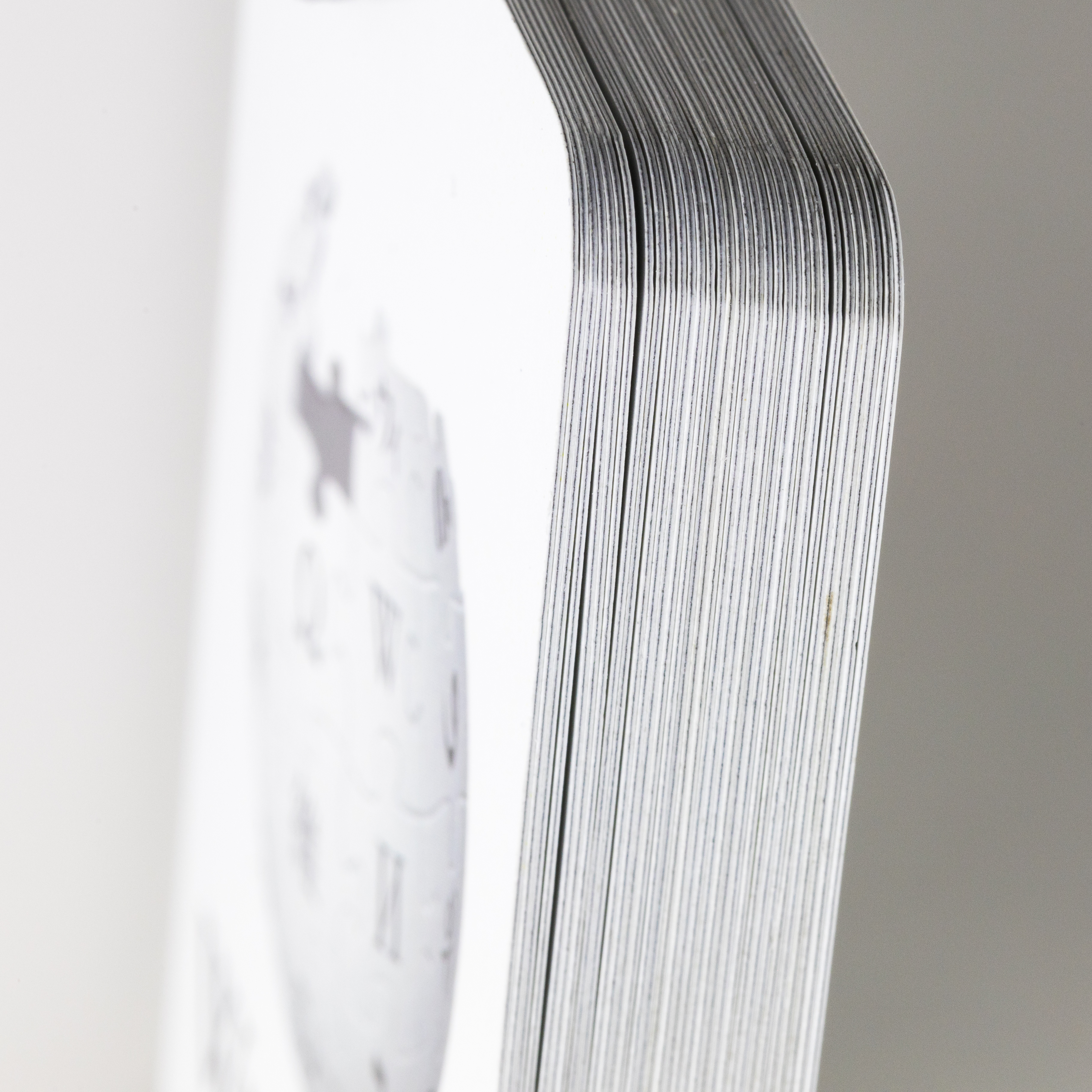 Side view of a playing card deck